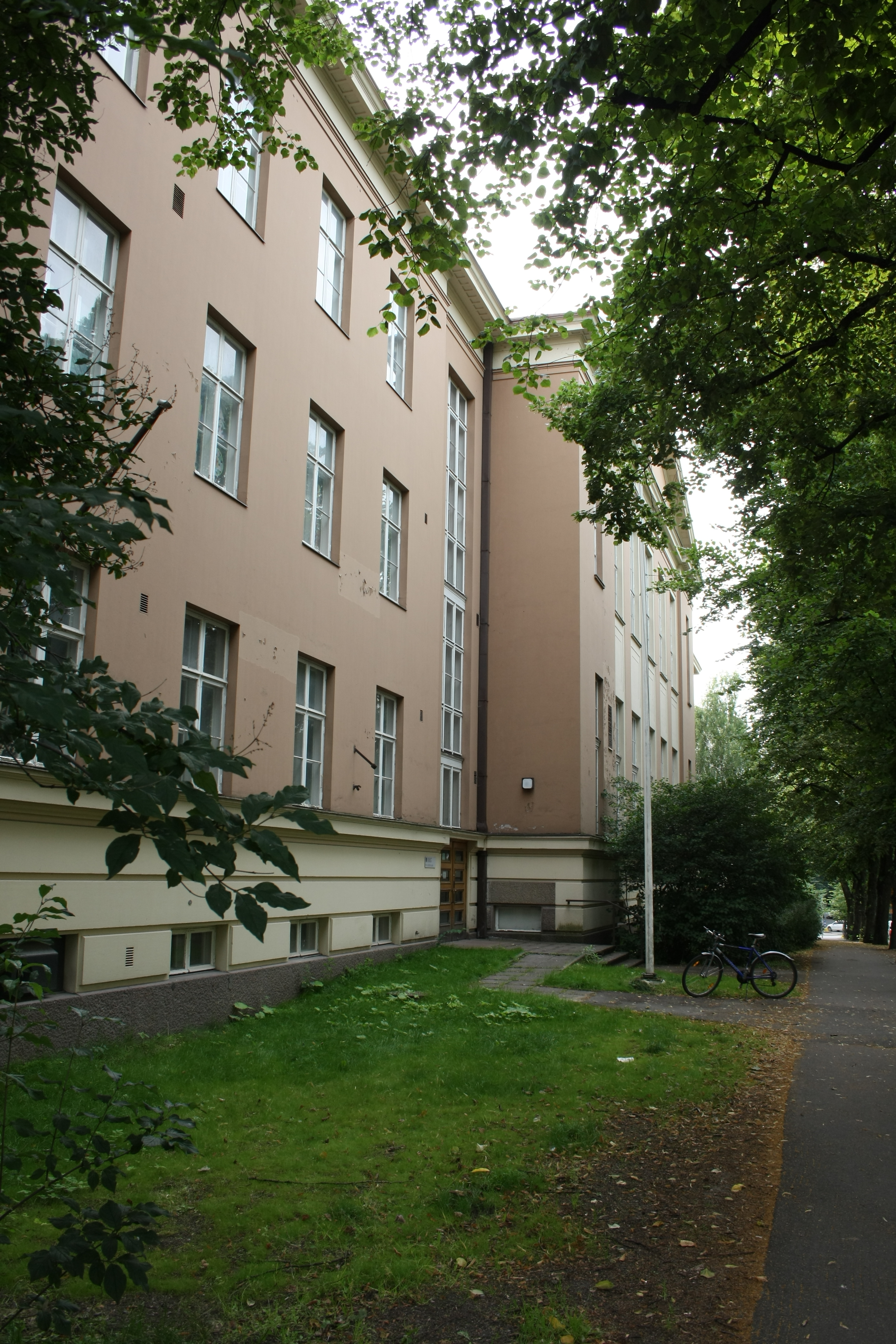 Etu-Töölö high school in Helsinki